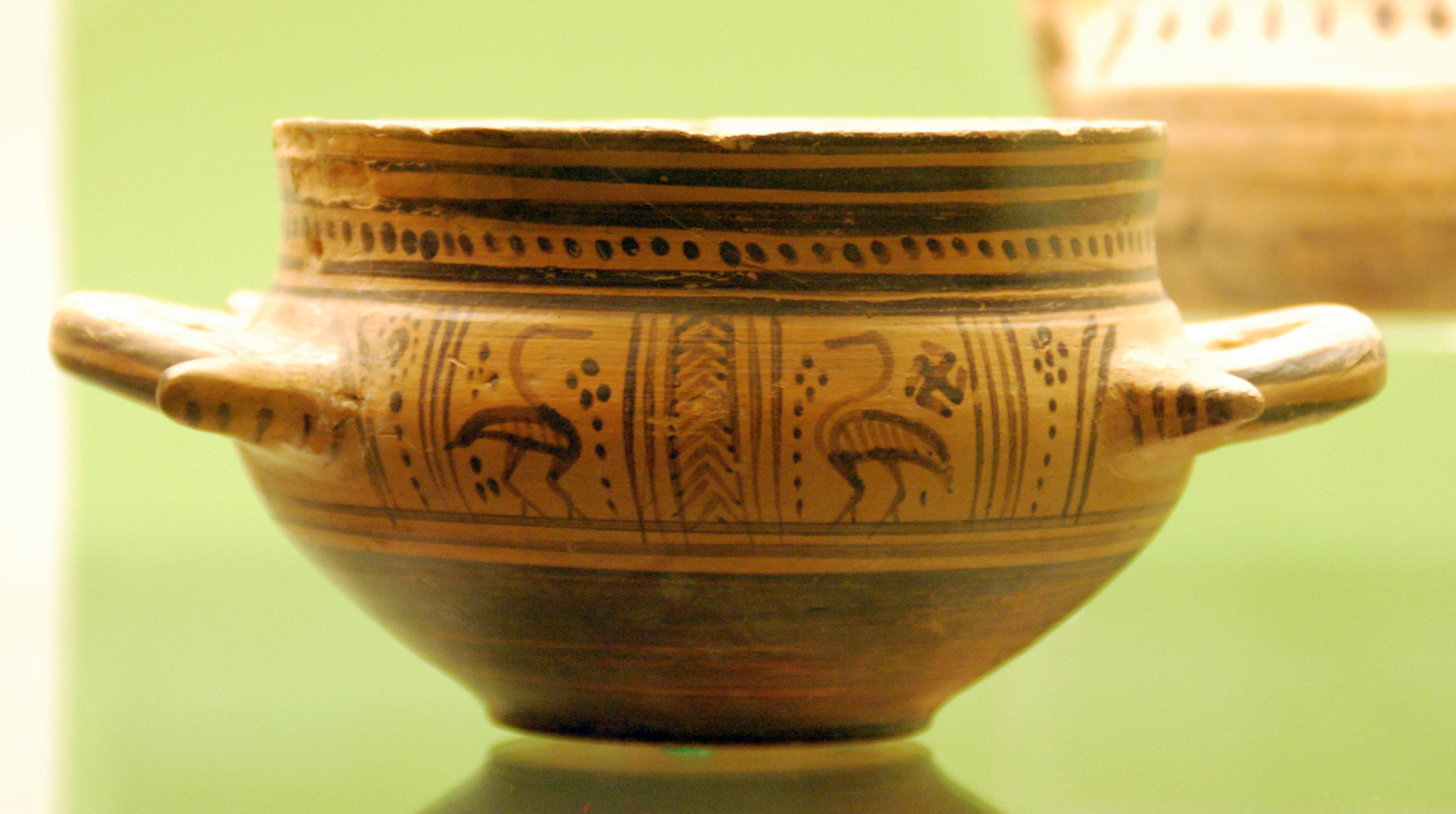 Late geometric attic Skyphos, decorated with geometric pattern, main frize two metopes with waterbirds and swastikas; Group of the Bird-Metope Skyphoi, clay, about 740 BC; Museum August Kestner Hanover; Inventary number 1958.1.